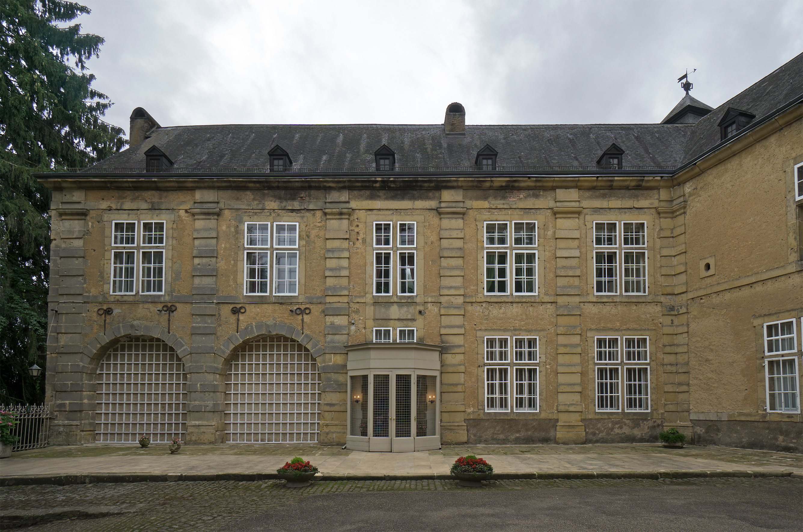 Housing unit of the new castle of Beaufort